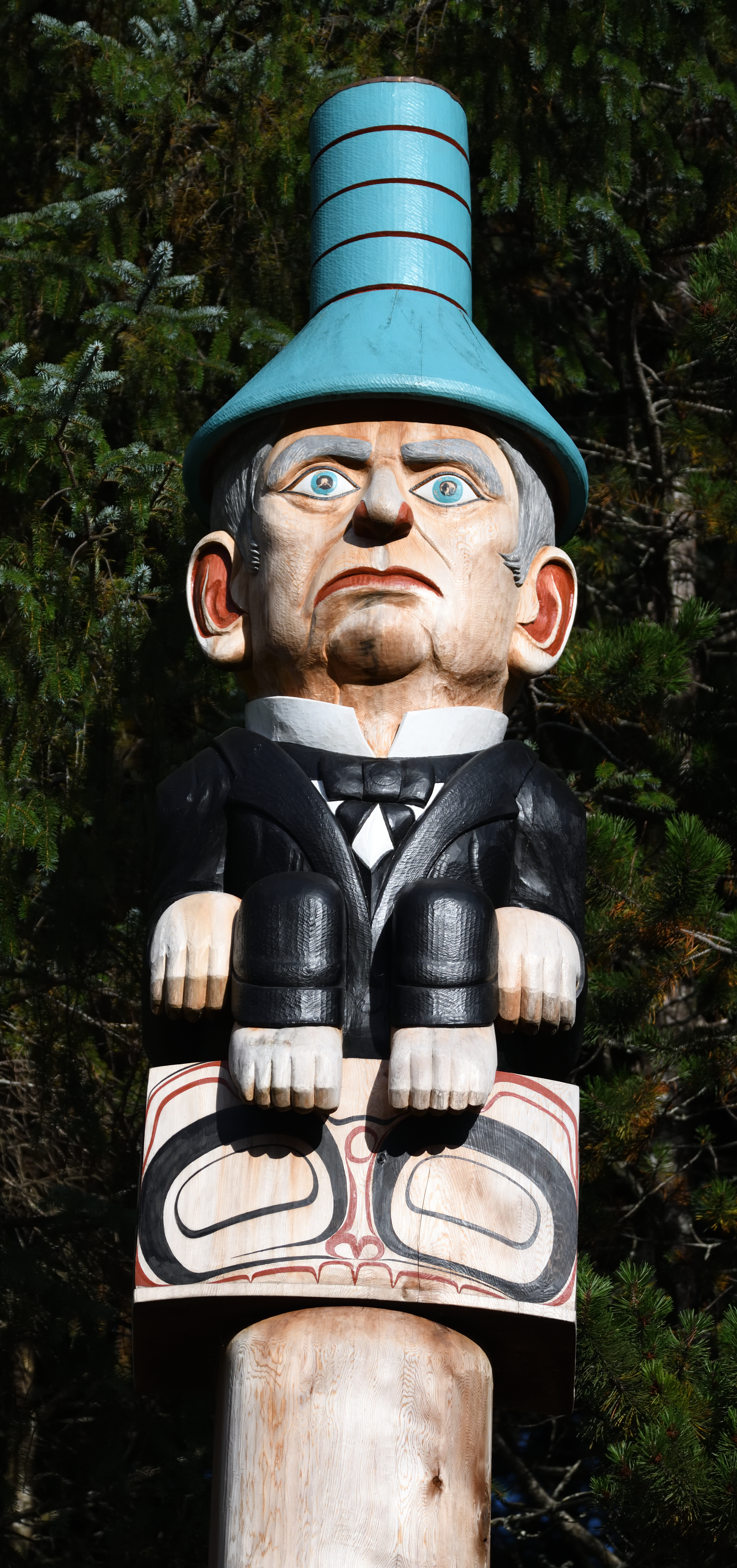 Seward Pole located in Saxman, Alaska